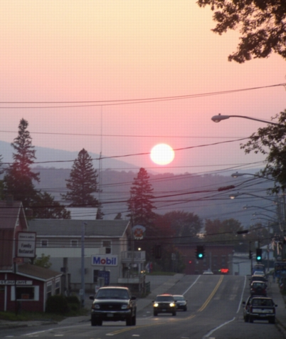 Tupper Lake I took this picture